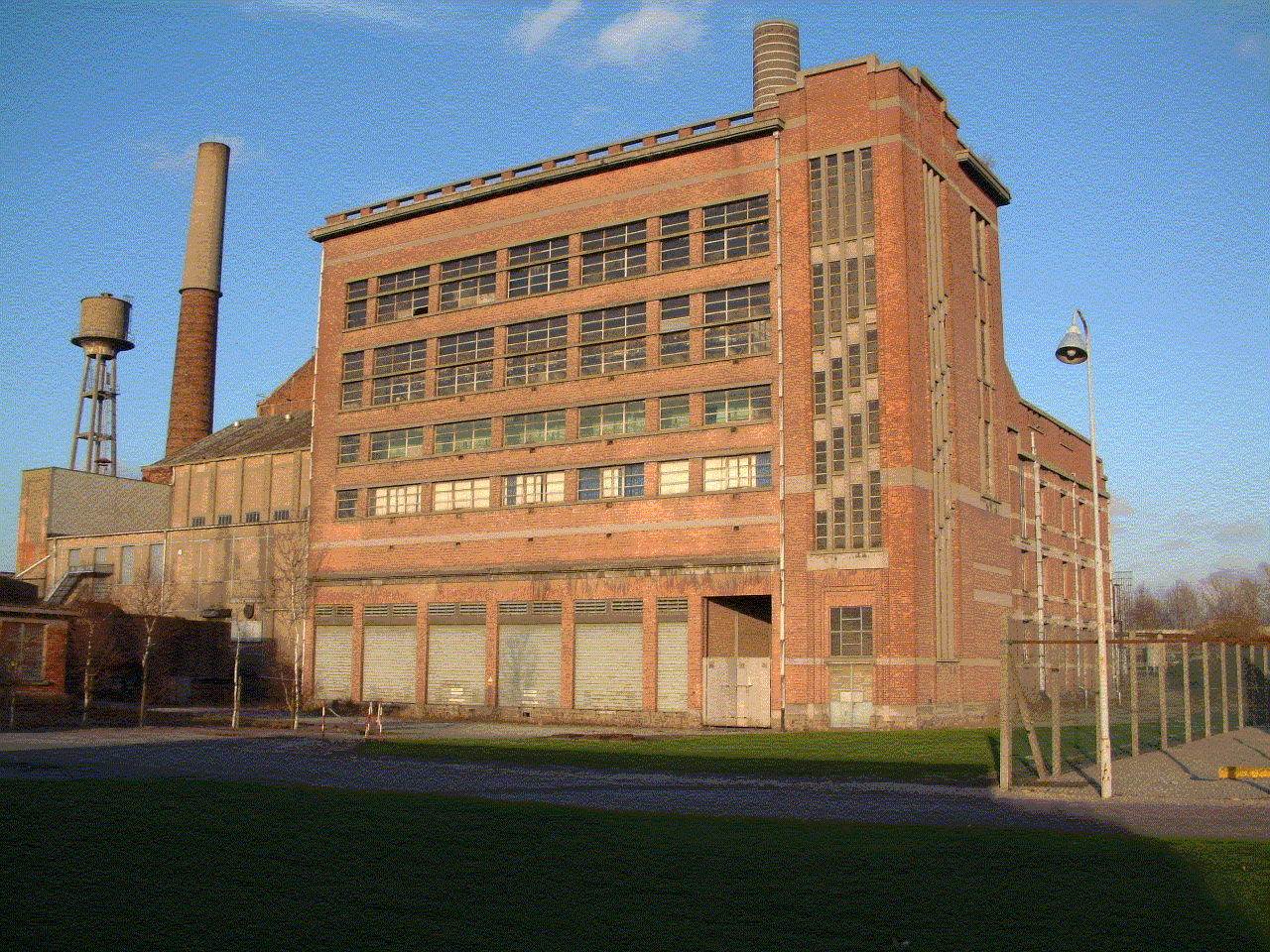 Transfo Zwevegem 2007 - defunct Electrabel electricity power plant - to be transformed in cultural center